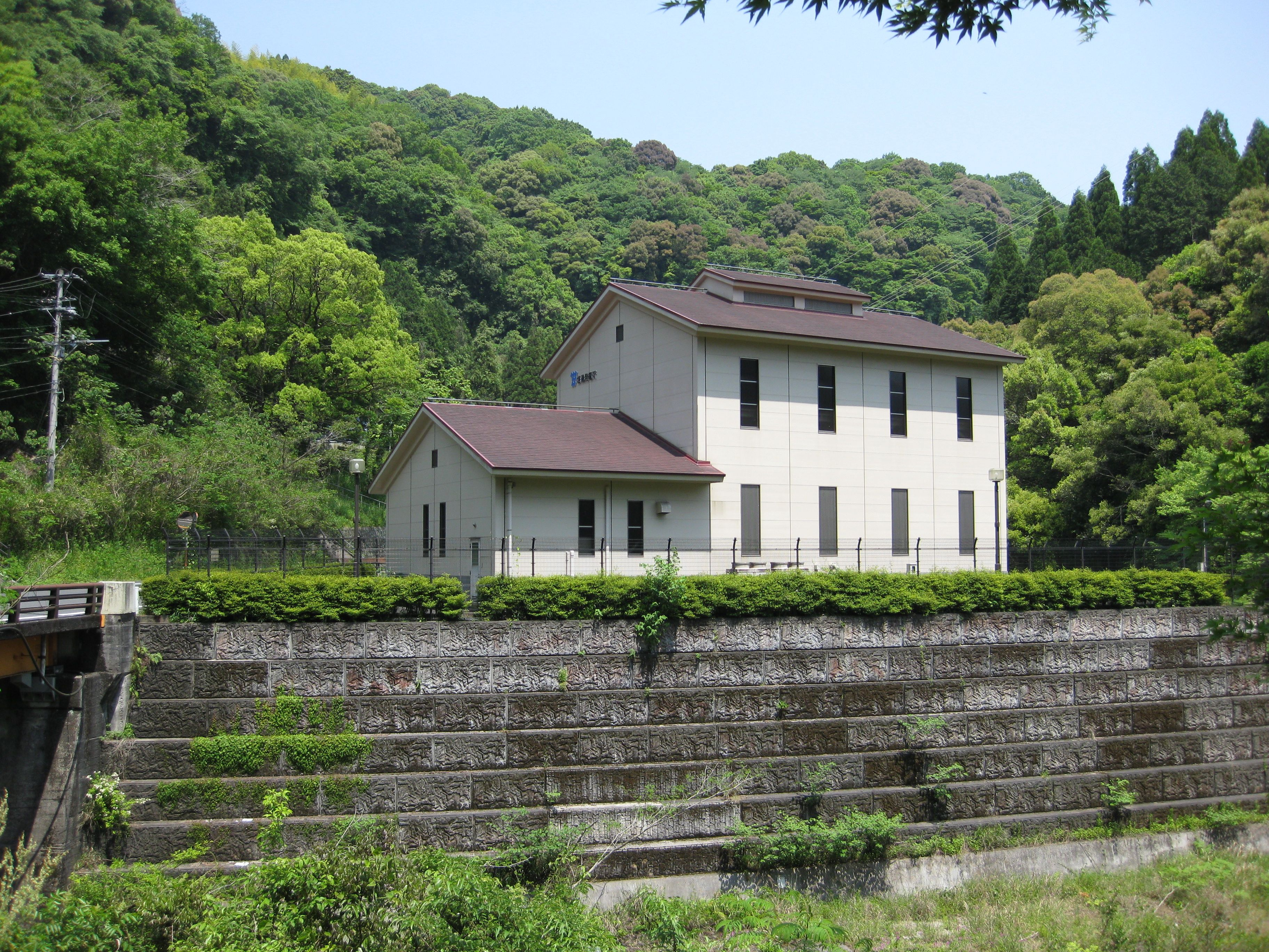 Shiobitashi Power Station in Kagoshima, Japan